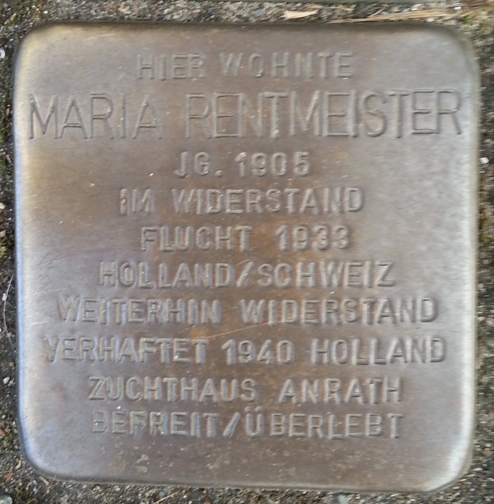 Stolperstein for Maria Rentmeister in Oberhausen-Sterkrade